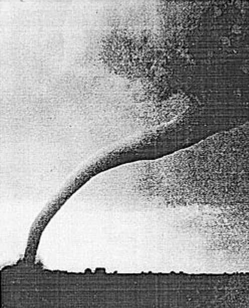 The 1968 Tracy Tornado